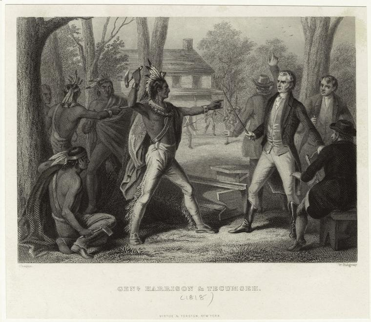 A print depicting the famous confrontation between Tecumseh and William Henry Harrison at Vincennes, Indiana, in 1810. Depicted Date: [1810?] Specific Material Type: Prints Item Physical Description: 1 print : b&w ; 18 x 21 cm. (7 x 8 in.) Notes: Written on border: "1818 [i.e. 1810?]." Source: Mid-Manhattan Picture Collection / American history -- 1810s Source Description: 5 folders (192 pictures)